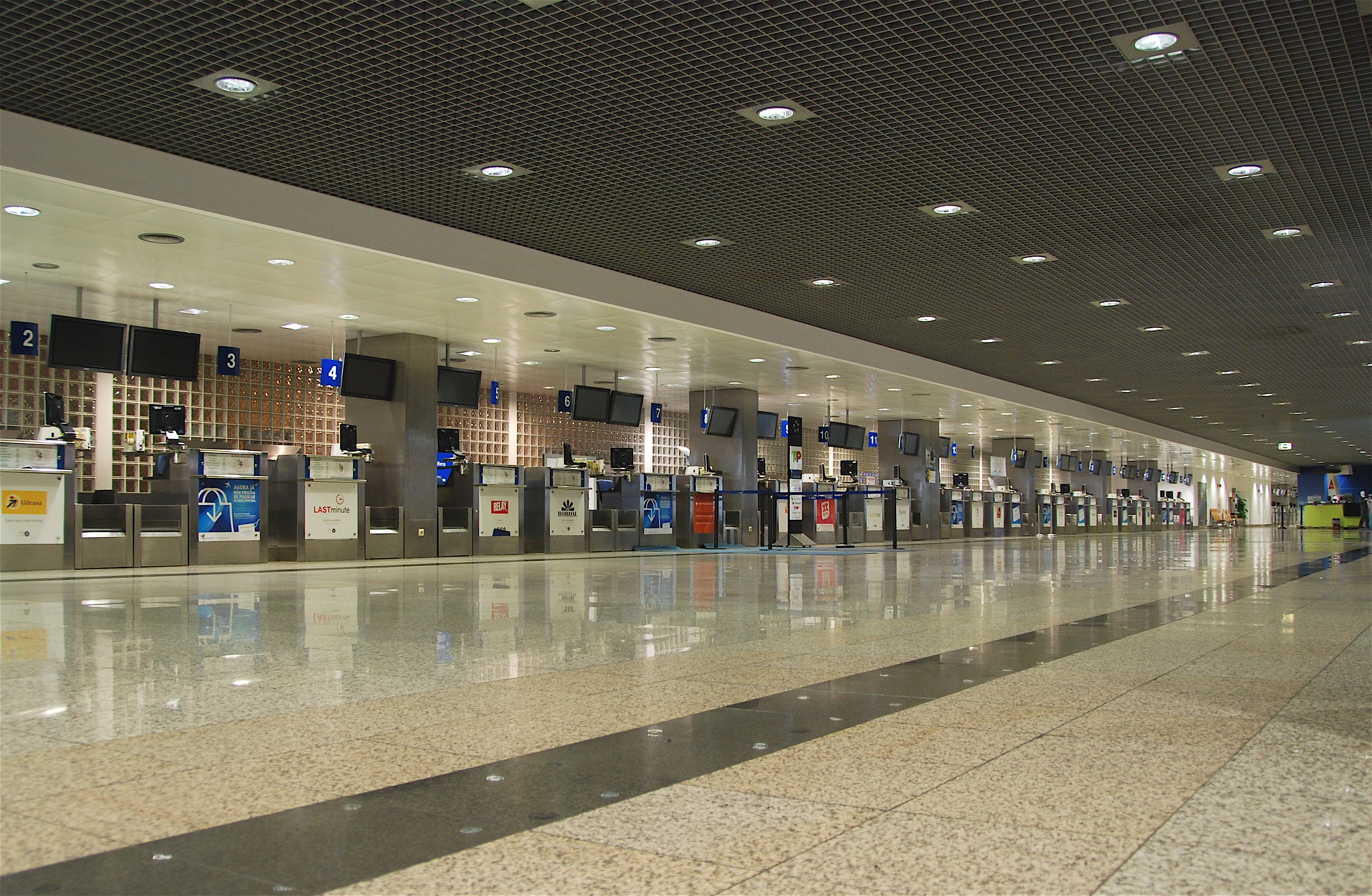 Funchal airport, July 13, 2011